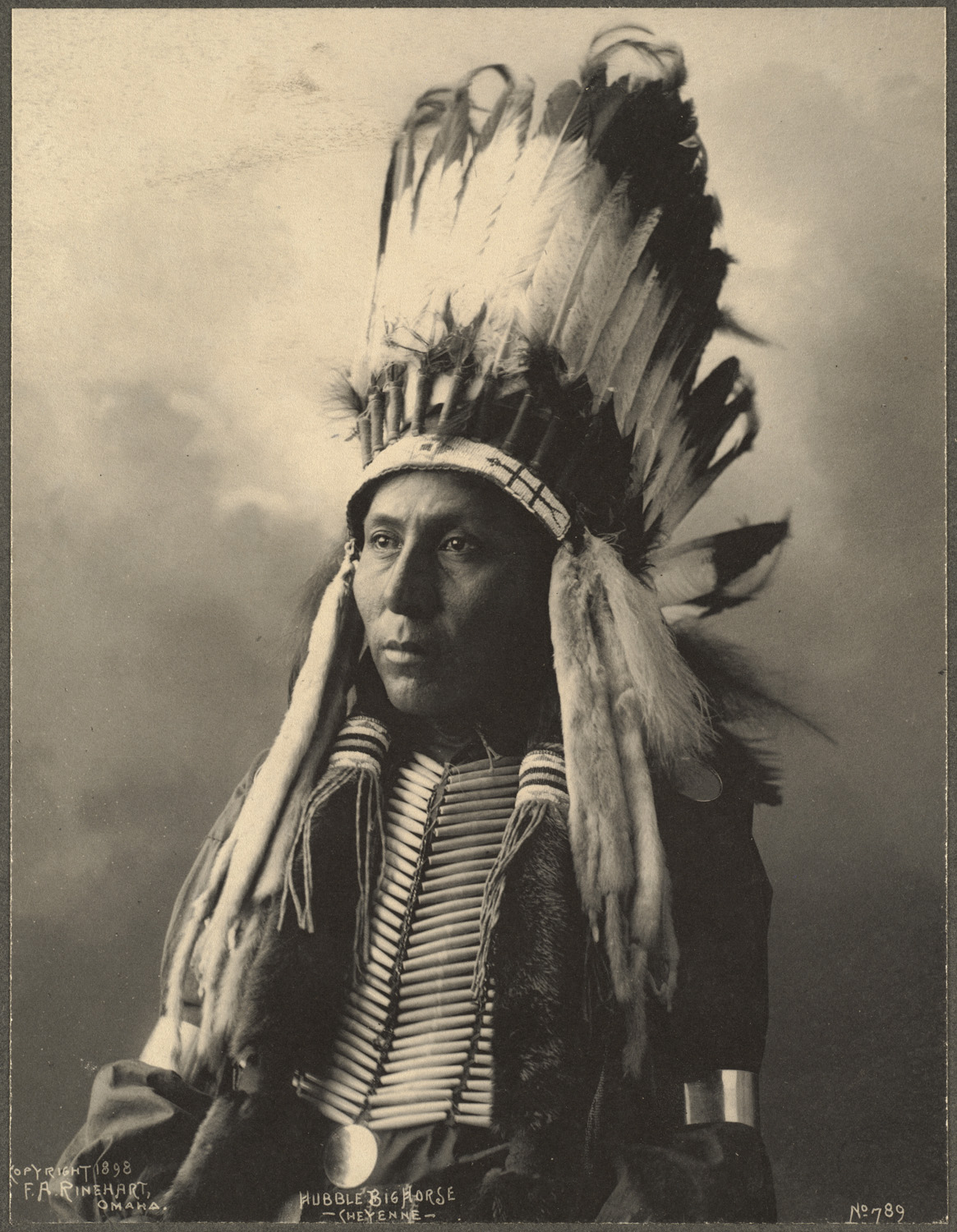 BPLDC no.: 09_06_000028 Rinehart no.: 789 Title: Hubble Big Horse, Cheyenne Photographer: Rinehart, F. A. (Frank A.) Copyright date: 1898 Extent: 1 photographic print : platinum Genre: Platinum prints; Portrait photographs Subject: Indians of North America; Cheyenne Indians; Trans-Mississippi and International Exposition (1898 : Omaha, Neb.) BPL Department: Print Department